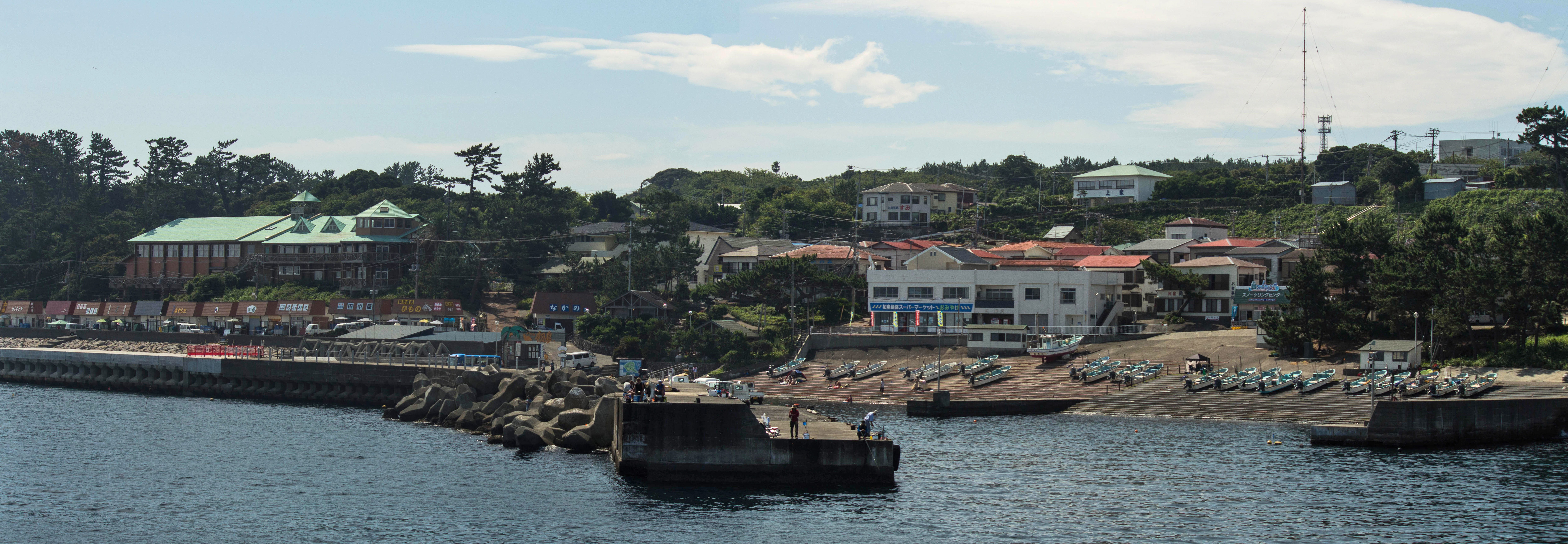 Port of Hatsushima Island in Atami, Shizuoka Prefecture, Japan.